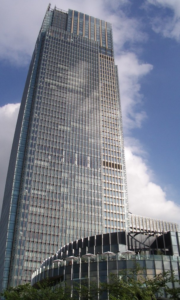 Tokyo_midtown_tower.JPG The Tokyo Midtown Tower. Roppongi, Tokyo